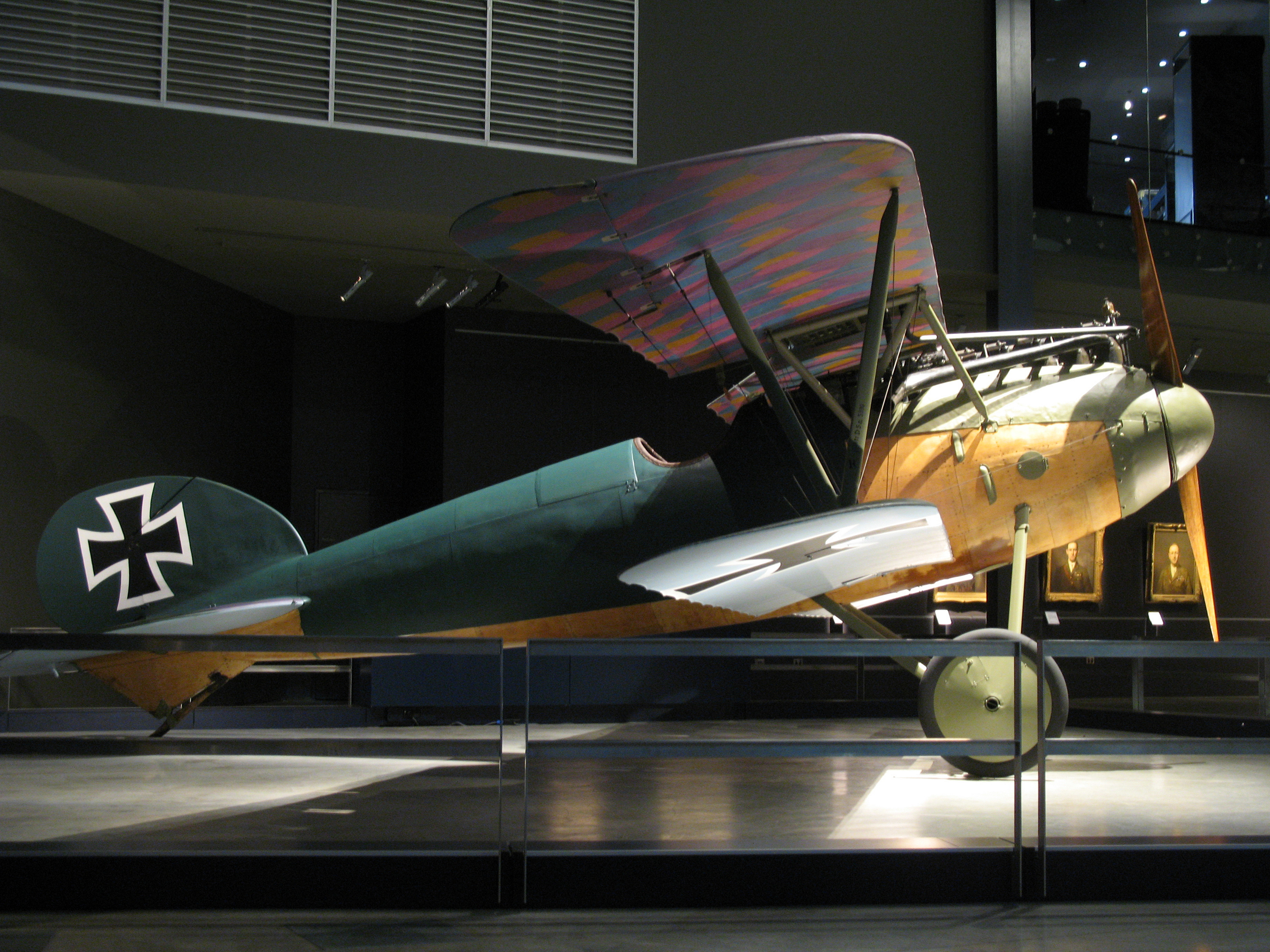 Albatros D.Va, Serial D.5390/17, at the Australian War Memorial in Canberra.